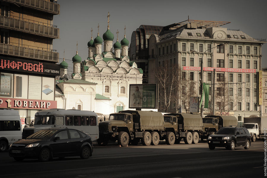 Reserve Police.